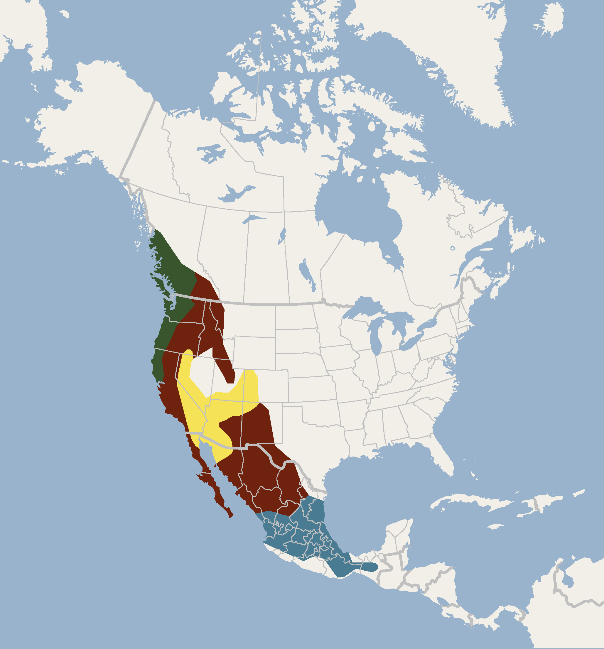 Geographical distribution of Myotis californicus